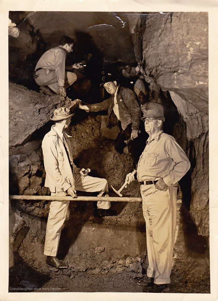 Walter Scott Amos at Skyline Caverns surrounded by workers. Walter Amos 1939-Original photo Photographer Lewis E Allen - Front Royal VA. Photo provided by Alice Mary Herden granddaughter of Walter Amos